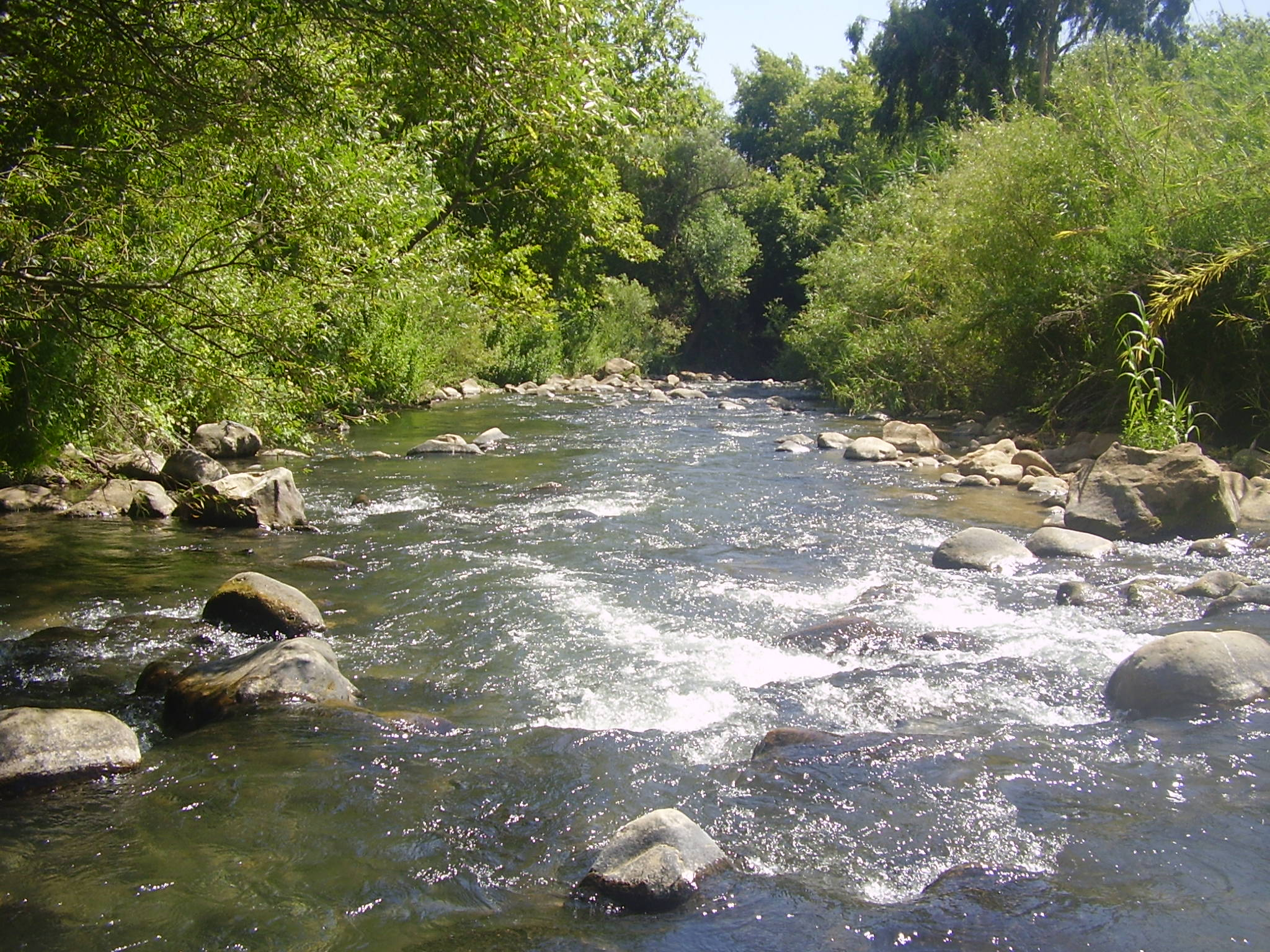 Hasbani River, (Snir River) Upper Galilee, Israel